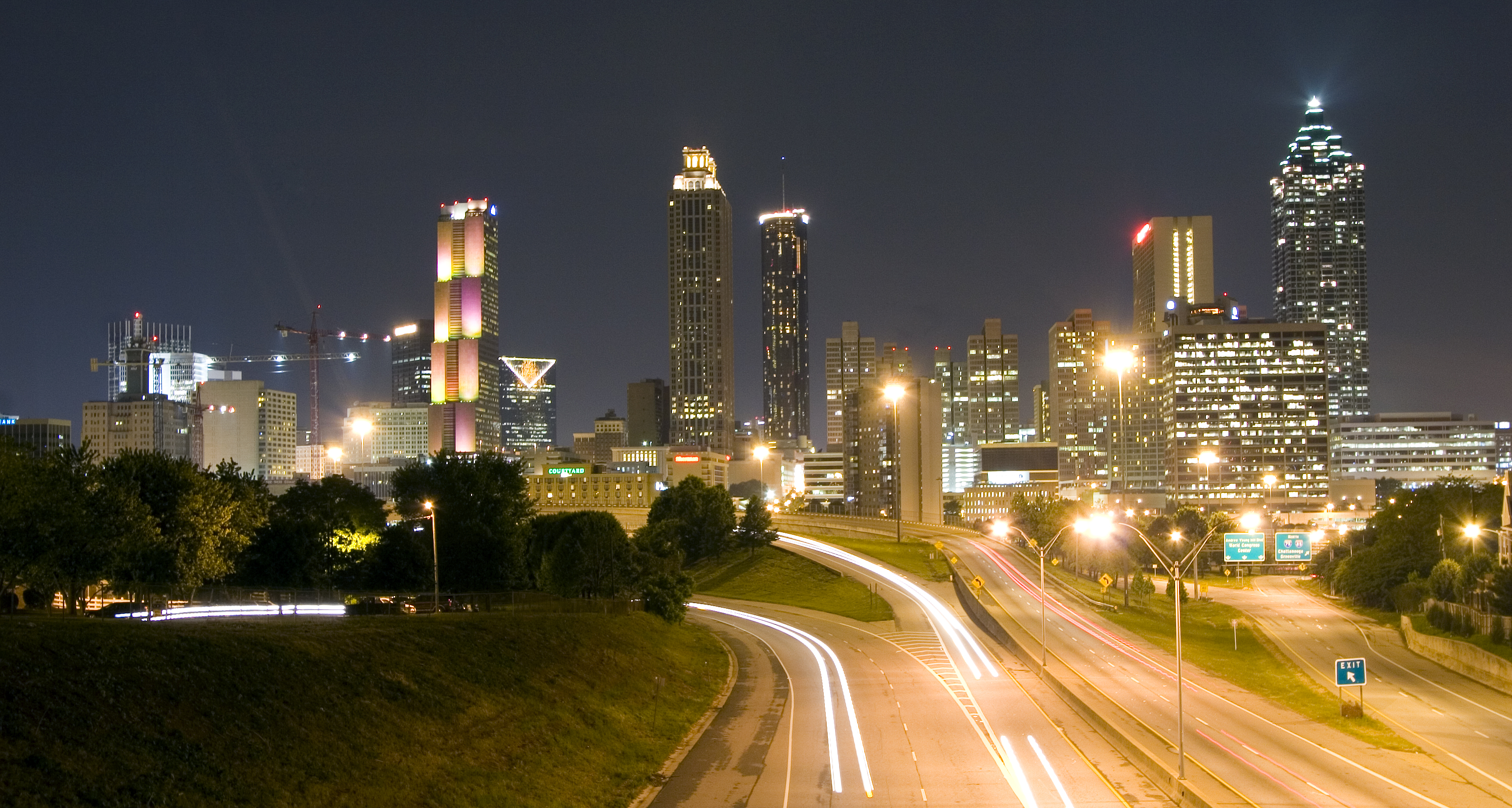 Freedom Parkway, looking west at Downtown Connector interchange and skyline of downtown Atlanta, Georgia, USA; taken from Jackson Street overpass